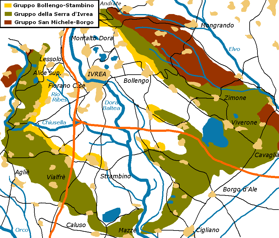 Anfiteatro morenico di Ivrea: morainic hills scheme (from Le Alpi, Dainelli, 1963, UTET, Torino and L'anfiteatro morenico di Ivrea : un geosito di valore internazionale, AA.VV., 2004, Litografia Geda, Nichelino, modified)